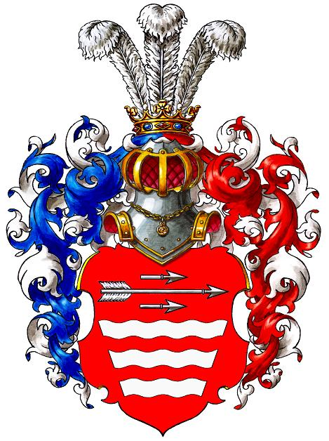 Coat of Arms of Alyabyev family